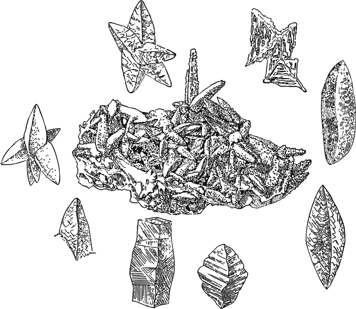 From a US Geological Survey report. ES Dana (cited in text). All USGS publications are free of copyright and for public use, so long as acknowledgements are made, and the author himself is dead.